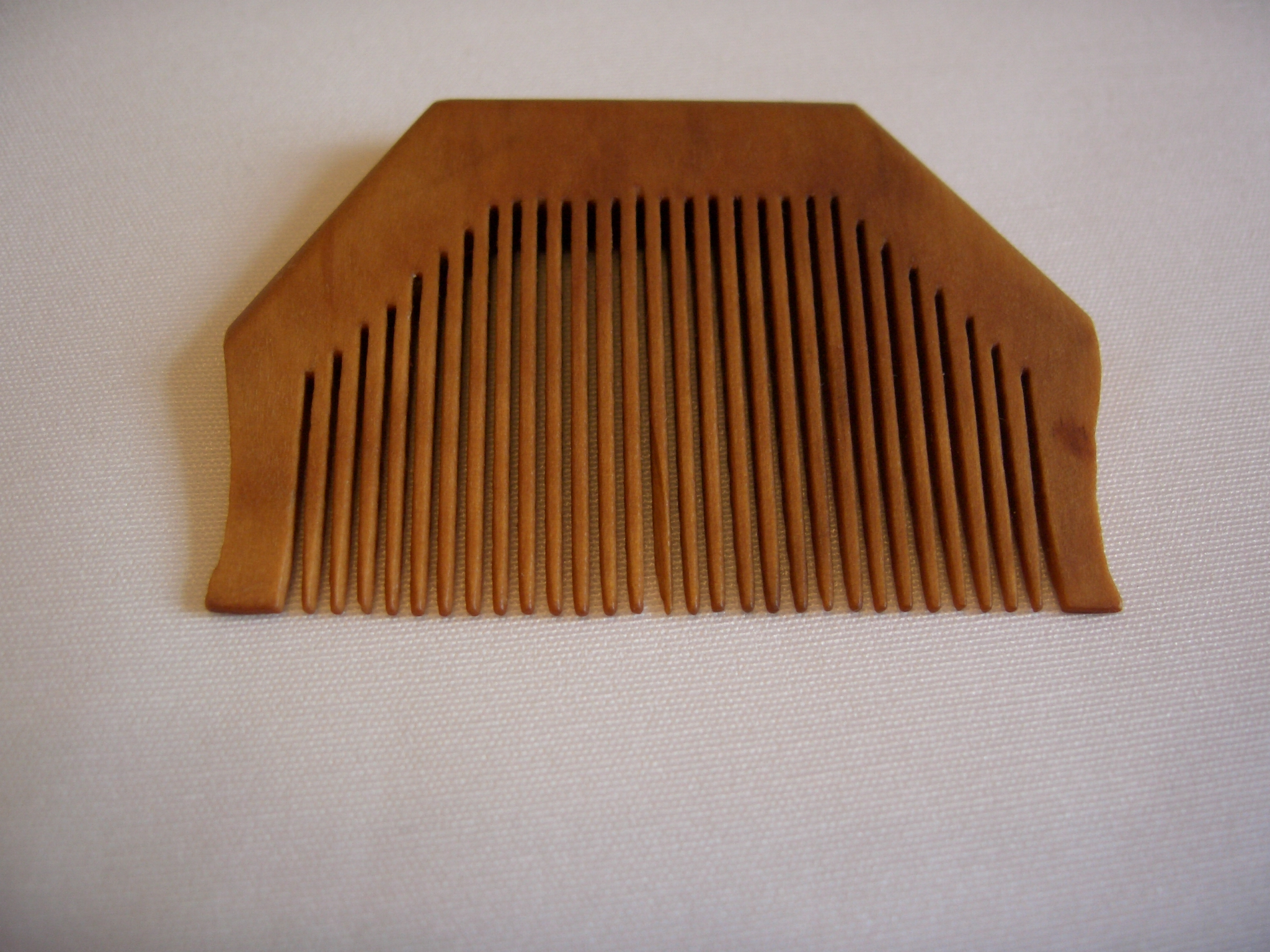 Sikhism Related Photo of wooden Kanga (comb) - one of five articles of faith.